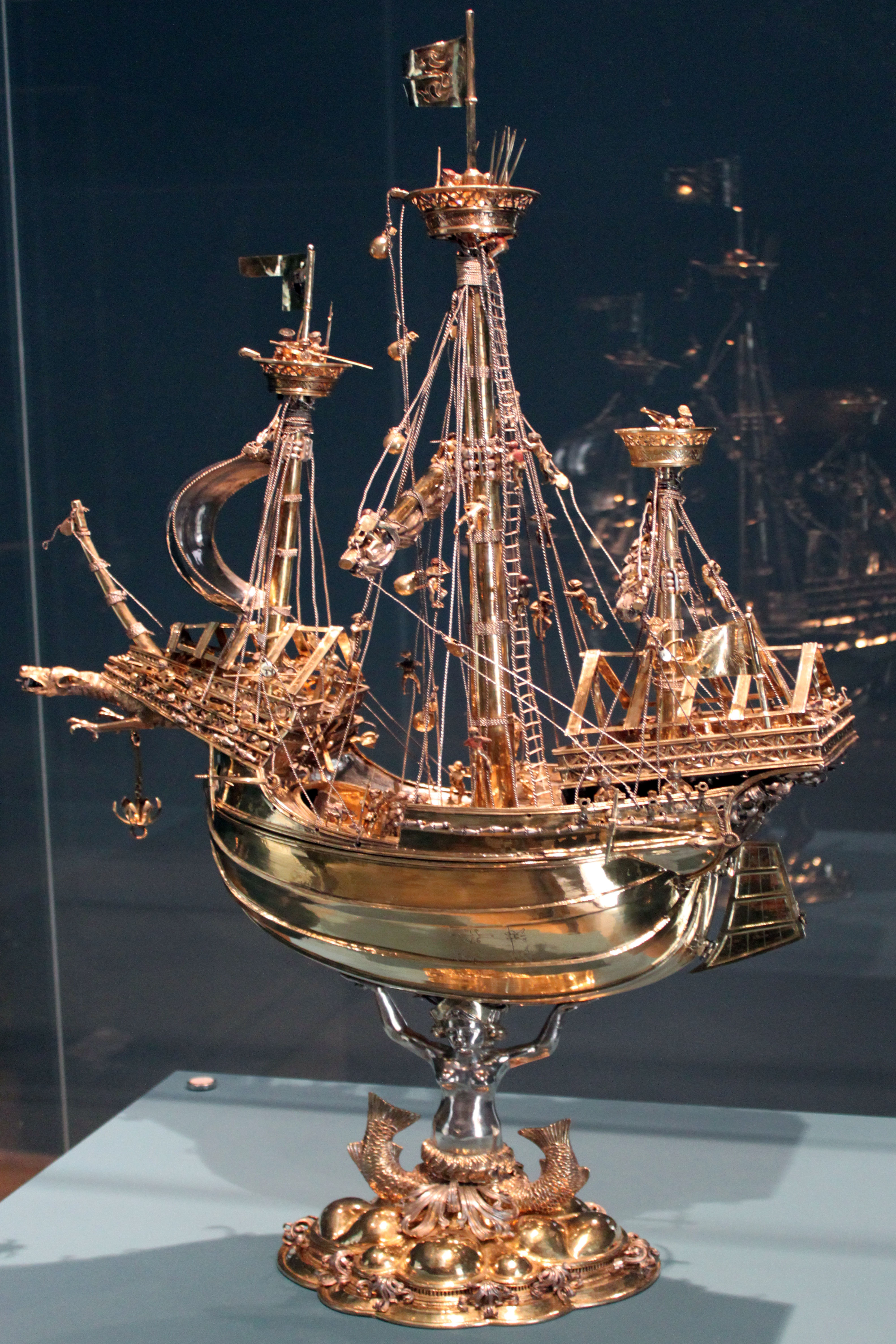 Ship as Table Centerpiece (Schlüsselfelder Ship), Nuremberg, 1503; Germanic National Museum in Nuremberg